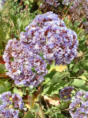 Perez's Sealavender growing by the San Francisco Bay Trail in Tiburon. Identified by knowledge of it as a garden plant followed by comparison with pictures from a Google image search.